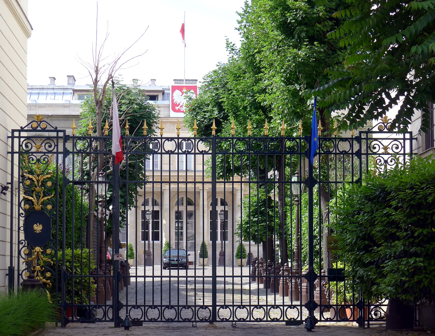 Saint-Dominique street, n°57 - paris